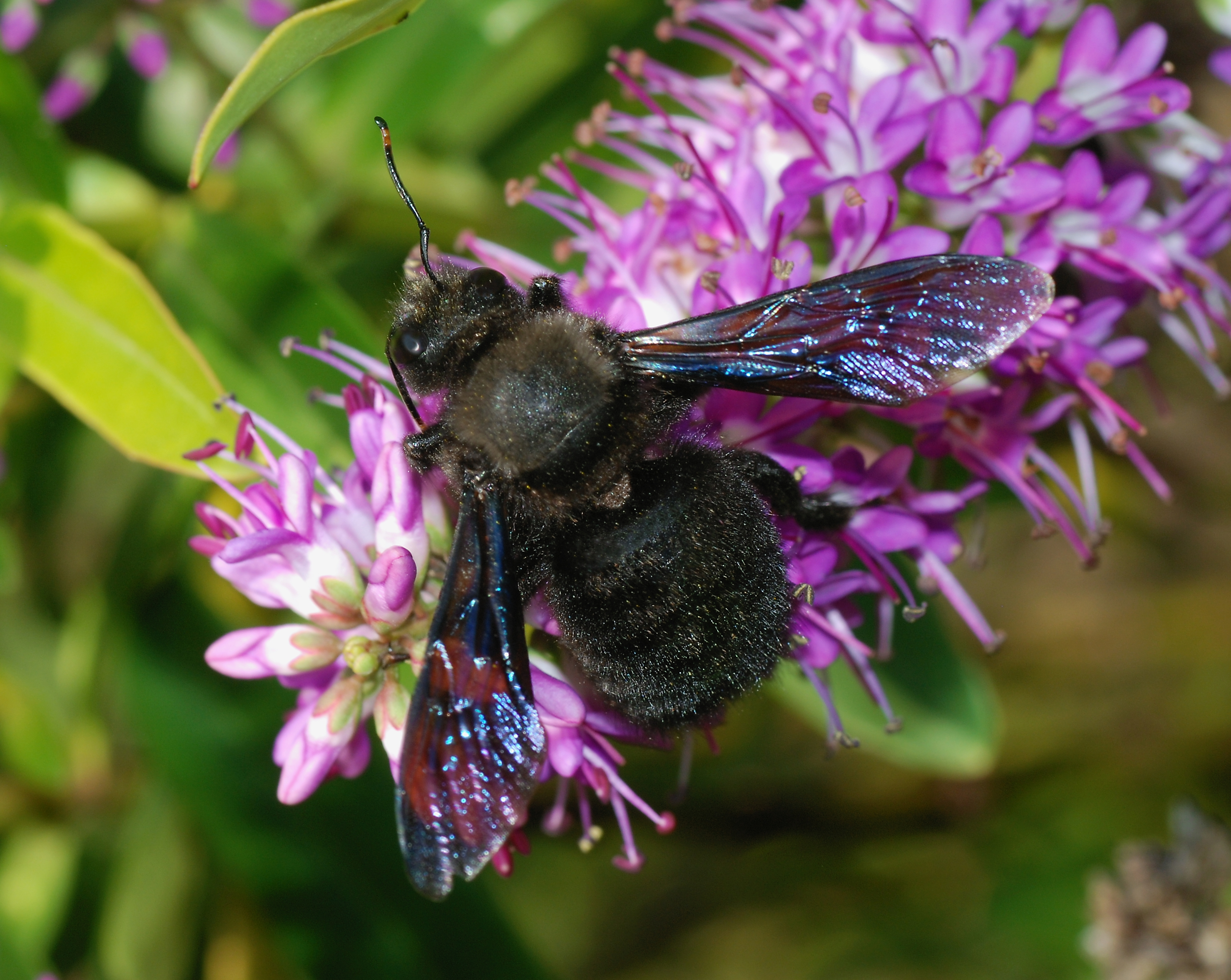 A big black bee (male Xylocopa violacea)